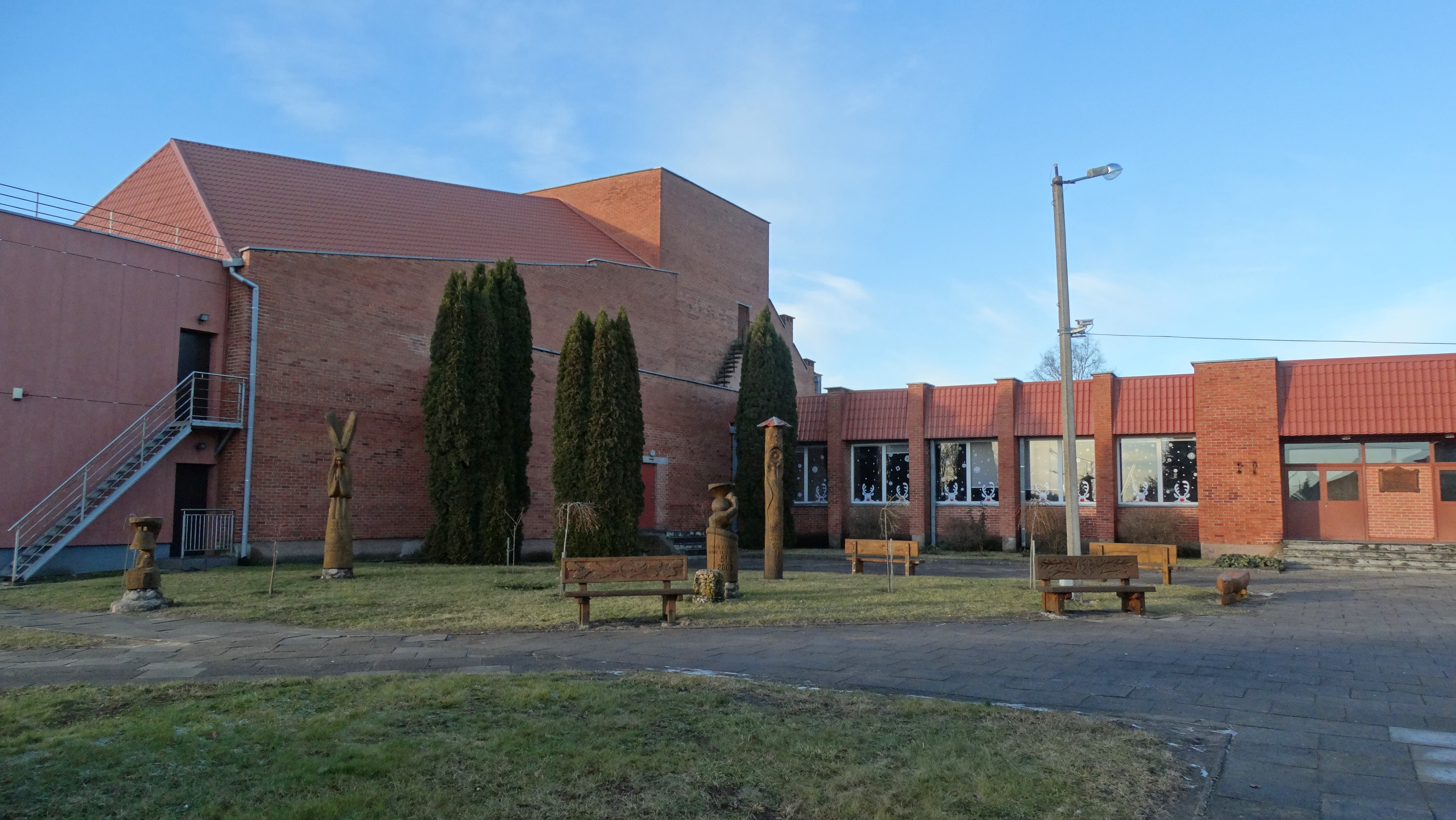 Basic school, Skirsnemunė, Jurbarkas district, Lithuania